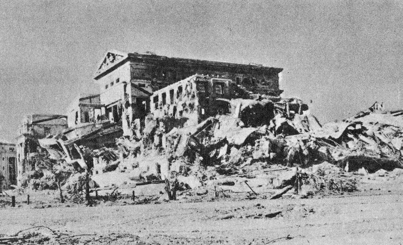 Destroyed Legislature Building, Manila